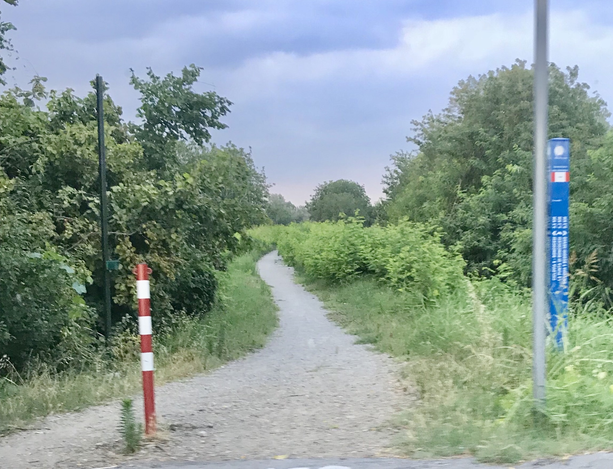 Crostolo greenway